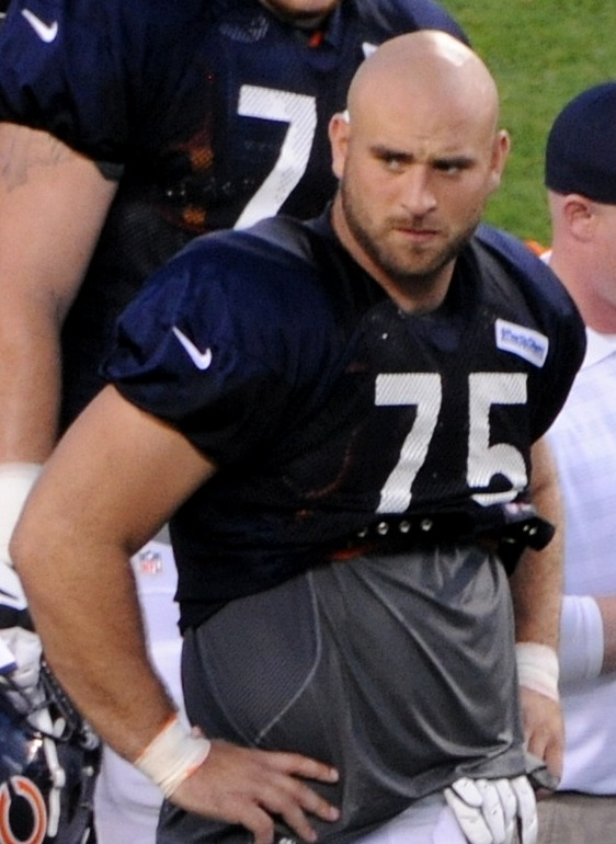 Guard, Kyle Long, at Chicago Bears training camp in 2014.